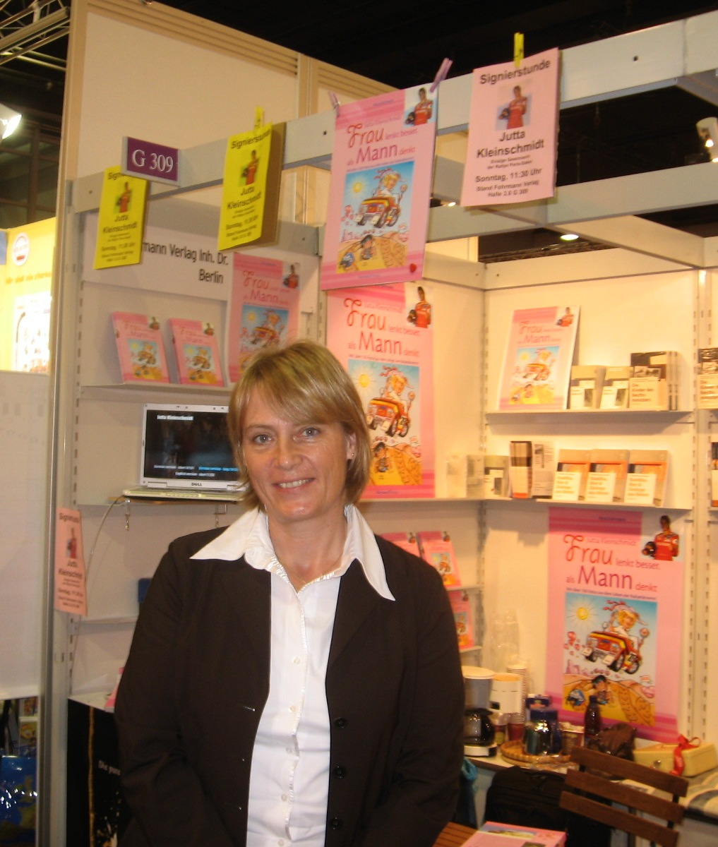 Jutta Kleinschmidt, Frankfurt, 2010.